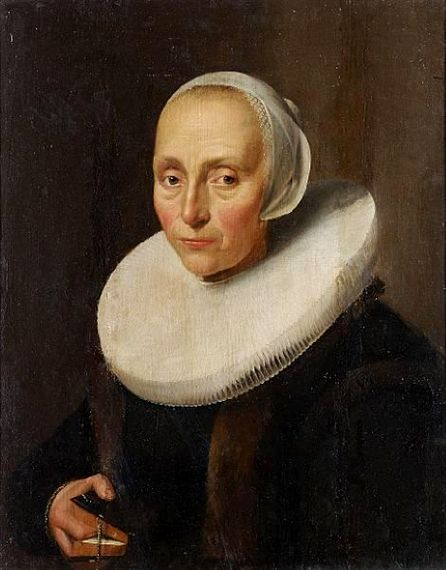 Portrait of a lady, half-length, in black, fur-trimmed costume with a white ruff and lace, Isaac Colonia (1611-1663), 26¼ x 20 in., oil on panel